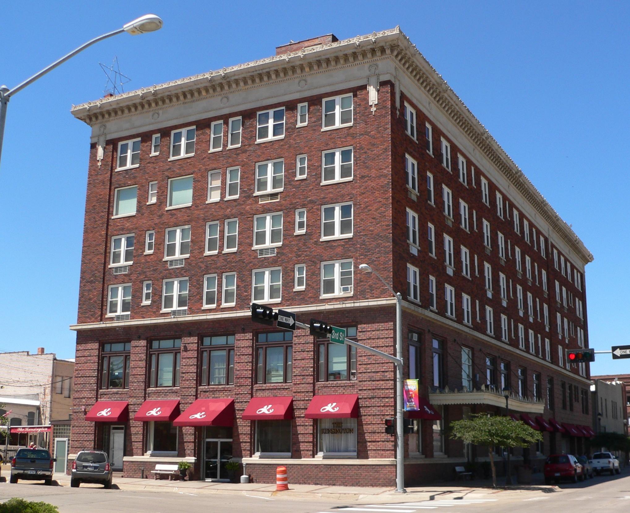 Clarke Hotel in Hastings, Nebraska; seen from the northeast. The Renaissance Revival building was constructed in 1914, and is listed in the National Register of Historic Places. It is now an assisted-living residence.